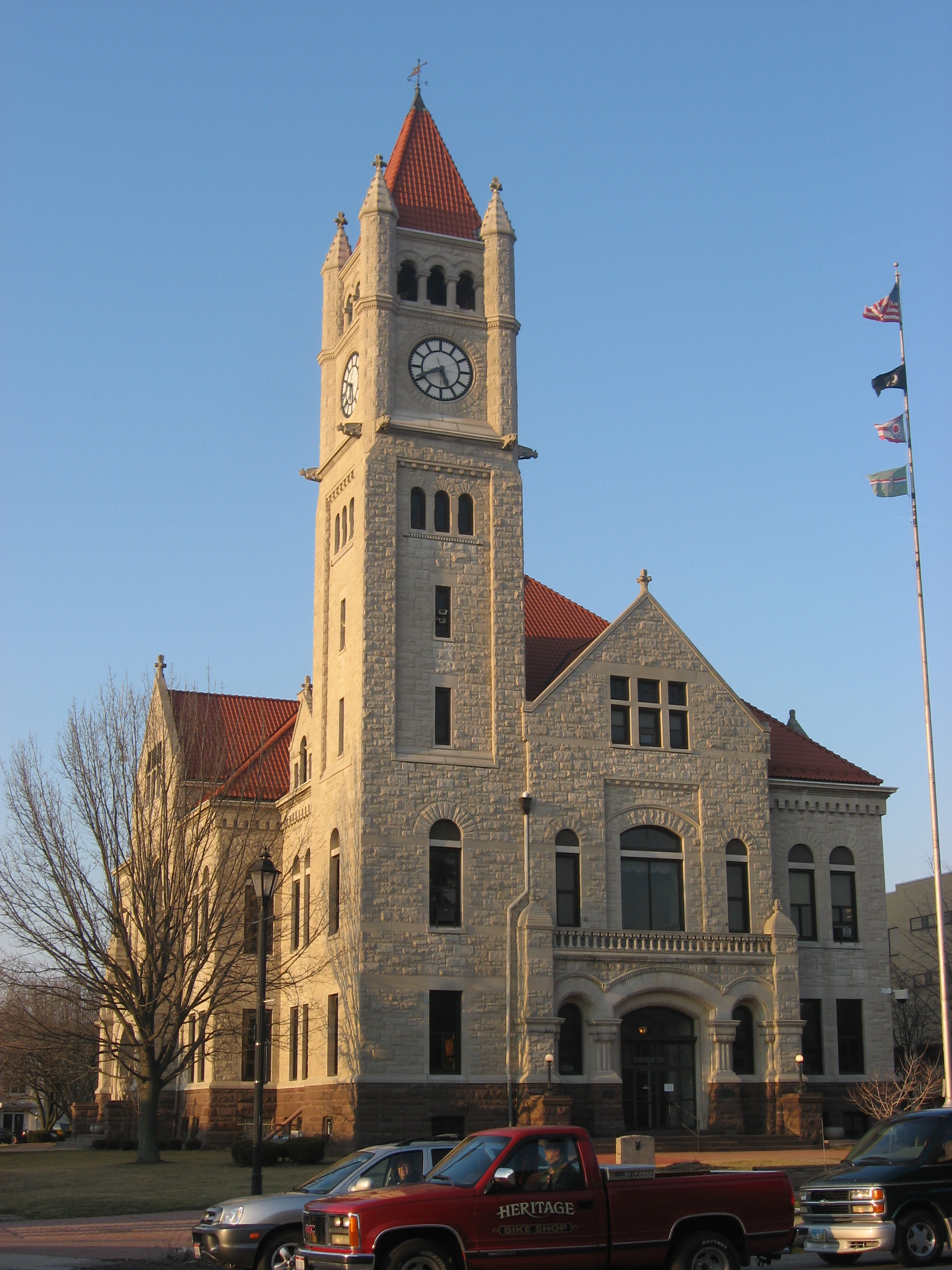 Front of the Greene County Courthouse, located on the northeastern corner of the intersection of Detroit and Main Streets (U.S. Routes 68 and 42) in downtown Xenia, Ohio, United States.